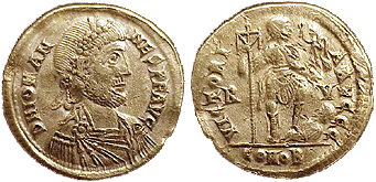 Joannes. 423-425 AD. AV Solidus (4.36 gm). Ravenna mint. D N IOHANNES PF AVG, rosette-diademed bust right VICTORIA AVGGG, Emperor standing right, holding Victory, Labarum, foot on captive, R-V, CONOB. RIC X 1901 (R2); Depeyrot 12/1. Little is known of the origin and early career of Johannes (John), but at the time of the death of the western Emperor Honorius (August 15, 423 AD) he occupied a position of great influence as head of the palace bureaucracy in Ravenna. An ‘interregum’ of several months followed Honorius' death during which the eastern Emperor Theodosius II (402-450) was technically the ruler of the entire Empire. On 20 November the situation was dramatically changed by the proclamation of Johannes in Ravenna as emperor of the West. Theodosius refused to countenance this usurpation and decided to support the claim to the western throne of his young cousin, Valentinian, son of the late Emperor Constantius III and the Empress Galla Placidia. Towards the end of 424 a large army was despatched from the East with orders to remove Johannes from power and to install Valentinian III as emperor of the West. After various setbacks this task was accomplished and the unfortunate Johannes was taken prisoner in Ravenna and sent to Aquileia for execution. his reign had lasted little more than a year and a half. The rare coinage of Johannes was issued mostly from his capital of Ravenna where at least five denominations were produced. This attractive solidus is of the usual ‘western’ design, with a profile bust of the emperor on obverse and his standing figure spurning a barbarian captive on reverse. The portrait depicts the emperor bearded, an unusual feature at this time and one which was sometimes associated with pagan sympathies.